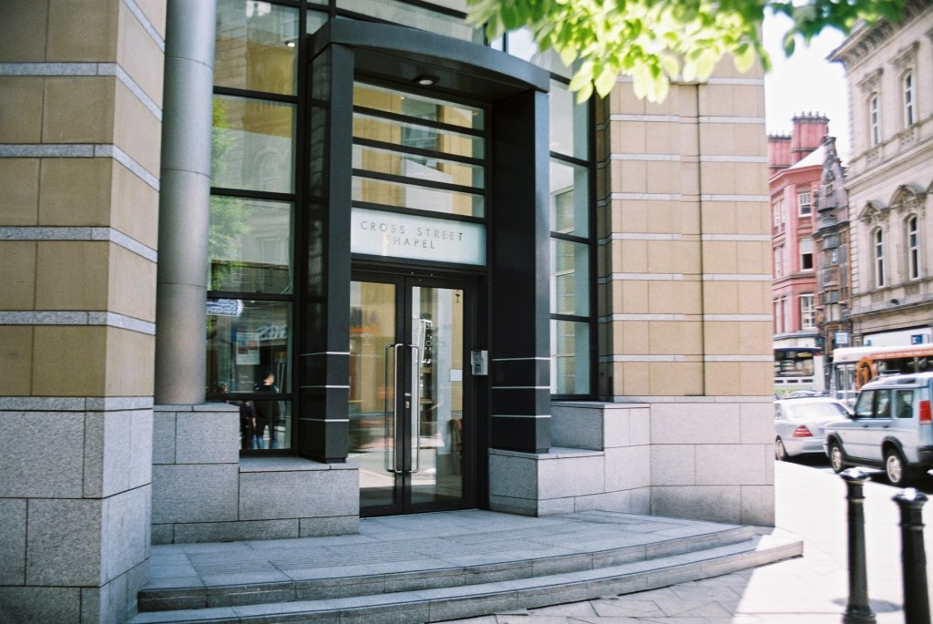 Cross Street Chapel entrance.